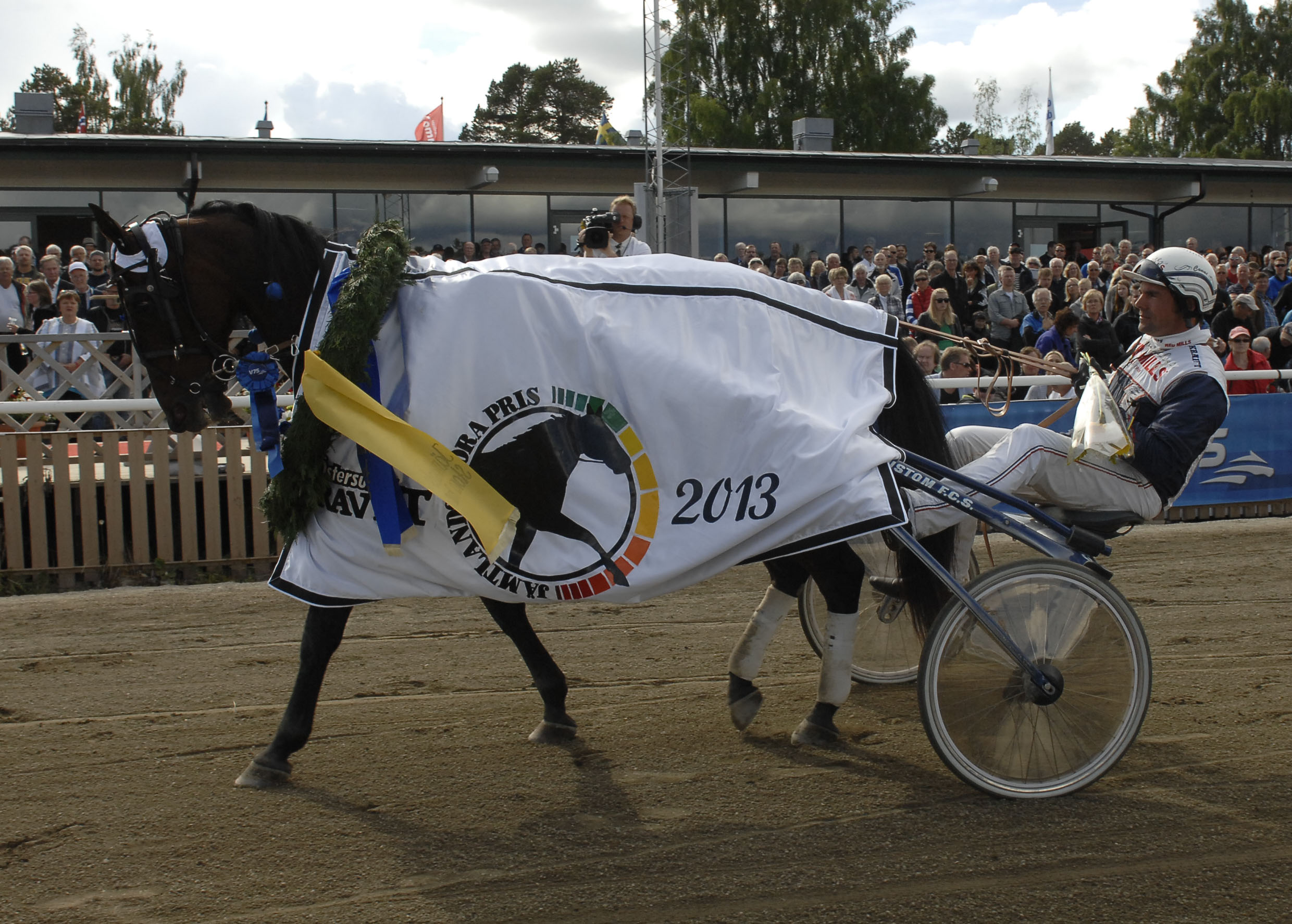 Driver Conrad Lugauer and trotting horse Bagley after winning Jämtlands Stora Pris in Sweden, 2013-06-08.